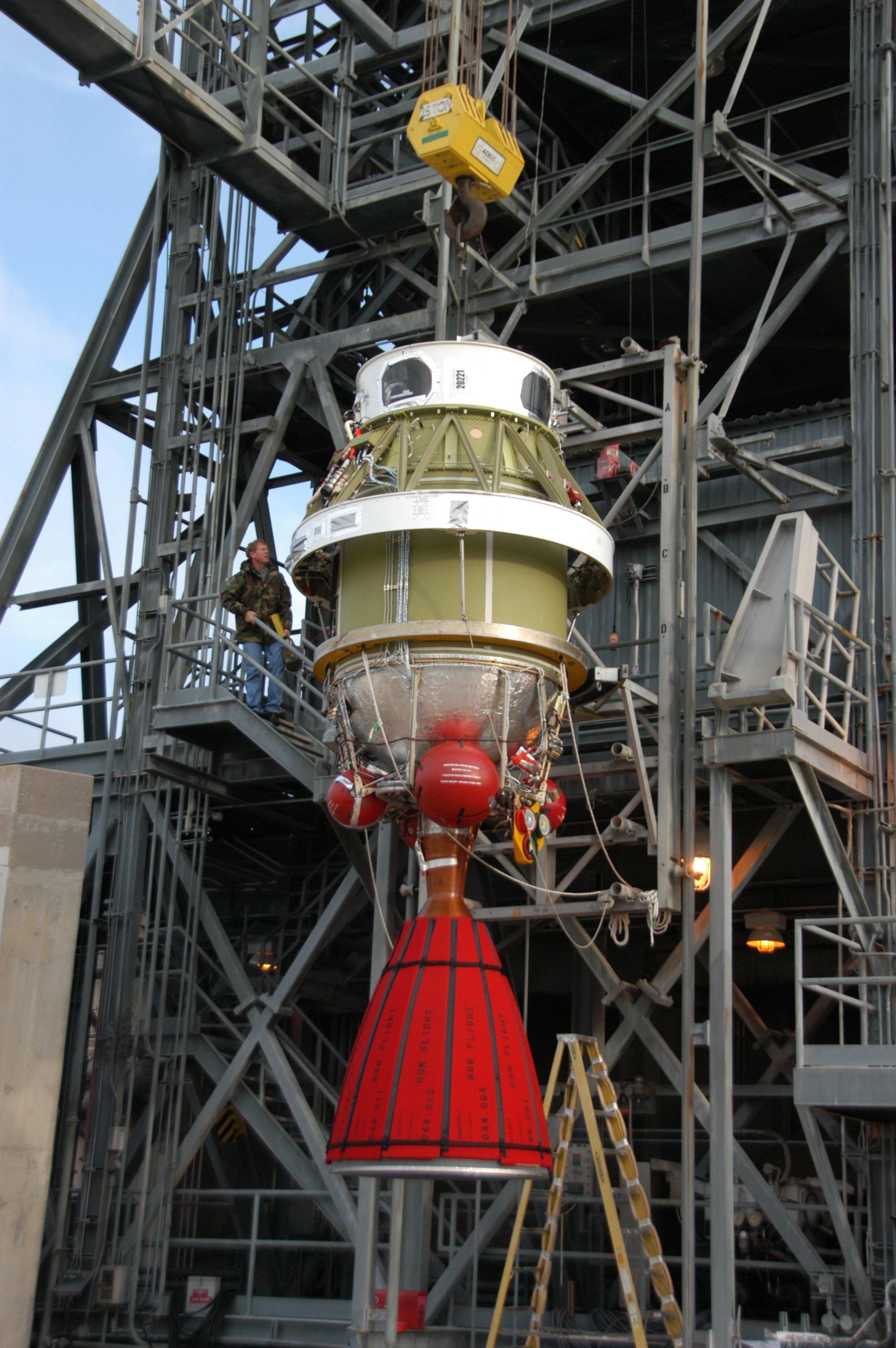 KENNEDY SPACE CENTER, FLA. -- On Pad 17-B at Cape Canaveral Air Force Station, the Delta II second stage is being lifted alongside the mobile service tower. Once inside, it will be mated with the first stage already in place. The Delta II is the launch vehicle for the THEMIS spacecraft. THEMIS consists of five identical probes, the largest number of scientific satellites ever launched into orbit aboard a single rocket. This unique constellation of satellites will resolve the tantalizing mystery of what causes the spectacular sudden brightening of the aurora borealis and aurora australis - the fiery skies over the Earth's northern and southern polar regions. THEMIS is scheduled to launch Feb. 15 from Cape Canaveral Air Force Station.